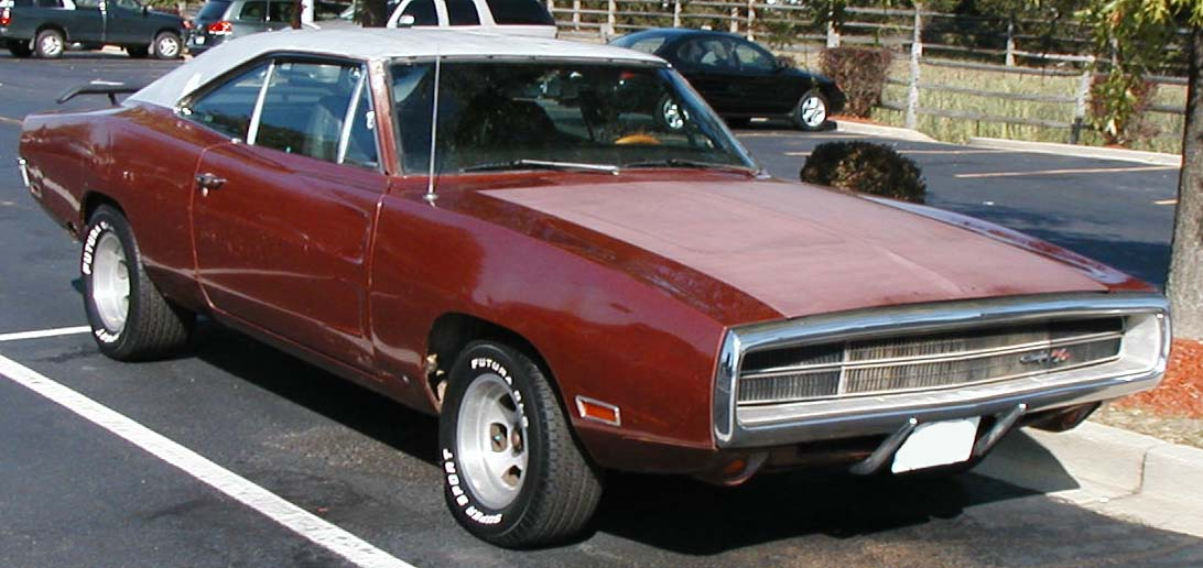 1970 Dodge Charger R/T photographed in USA.